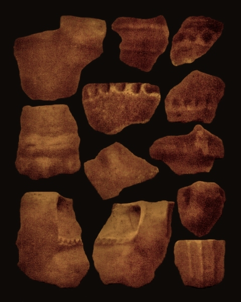 Elba island